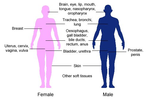 Clinical applications of brachytherapy.jpg